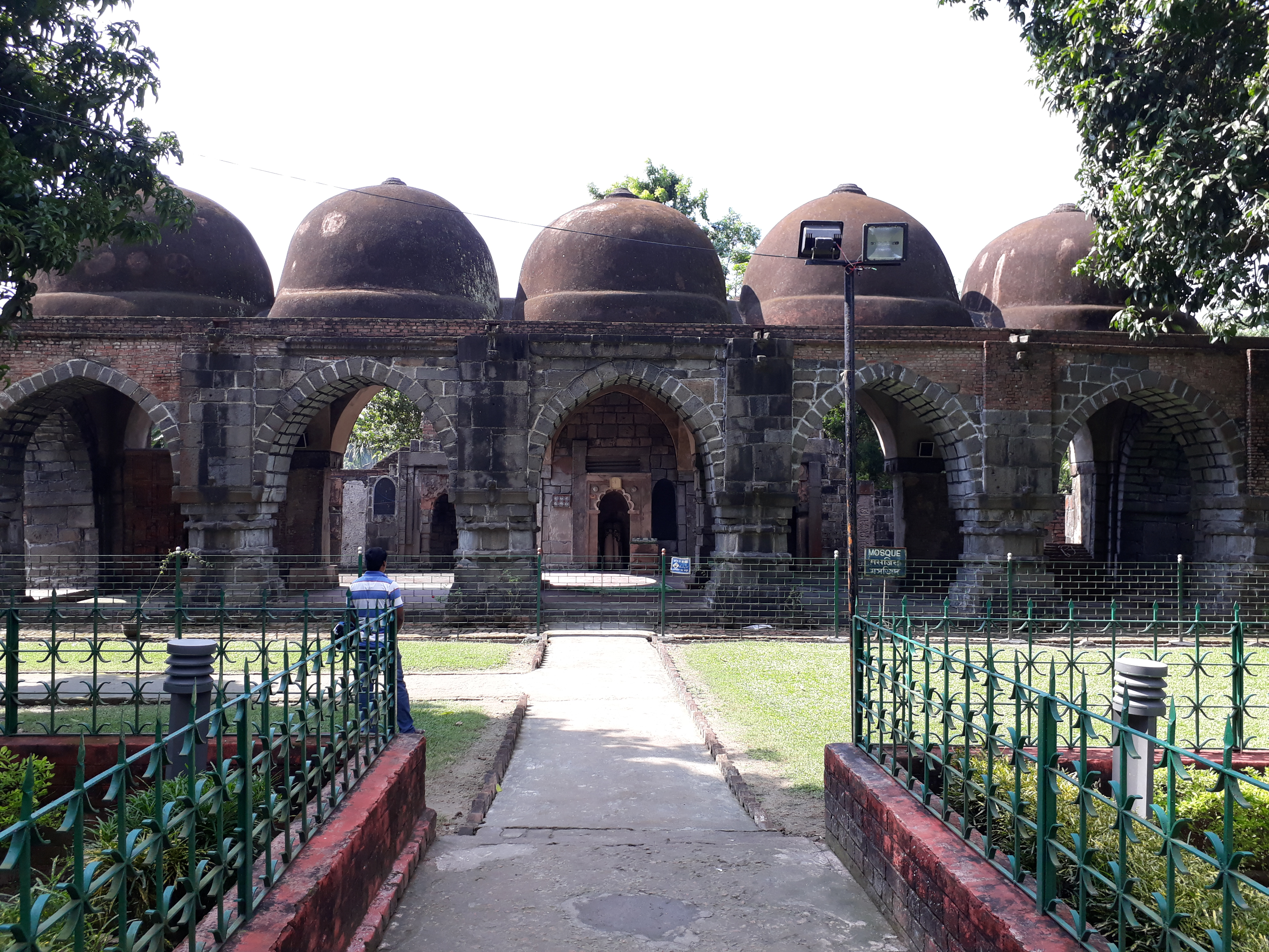 Jafar khan Ghaji Mosque in Tribeni, Hooghly